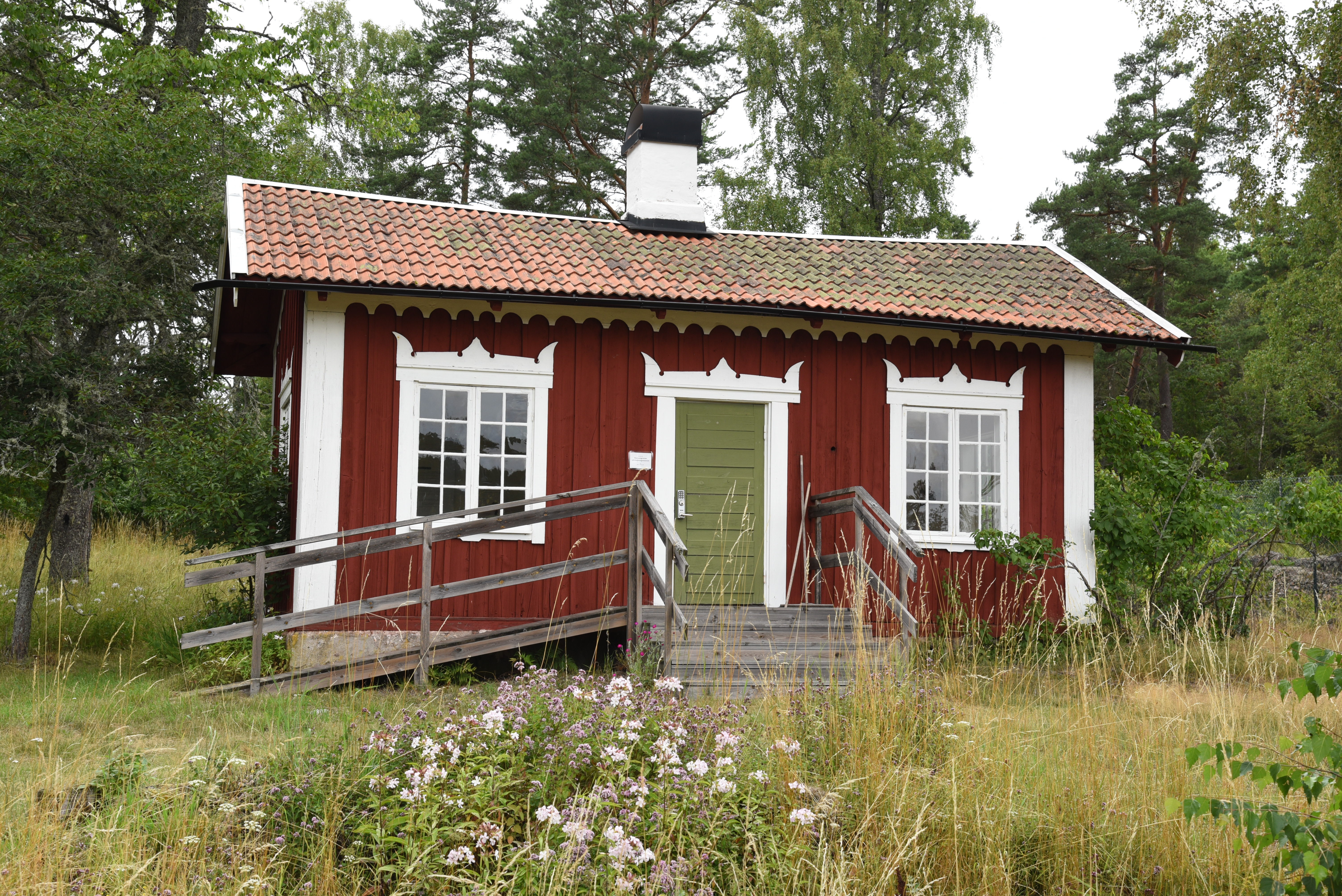 The copper mine Mormorsgruvan in Närstad's mining field, Åtvidabergs municipality.